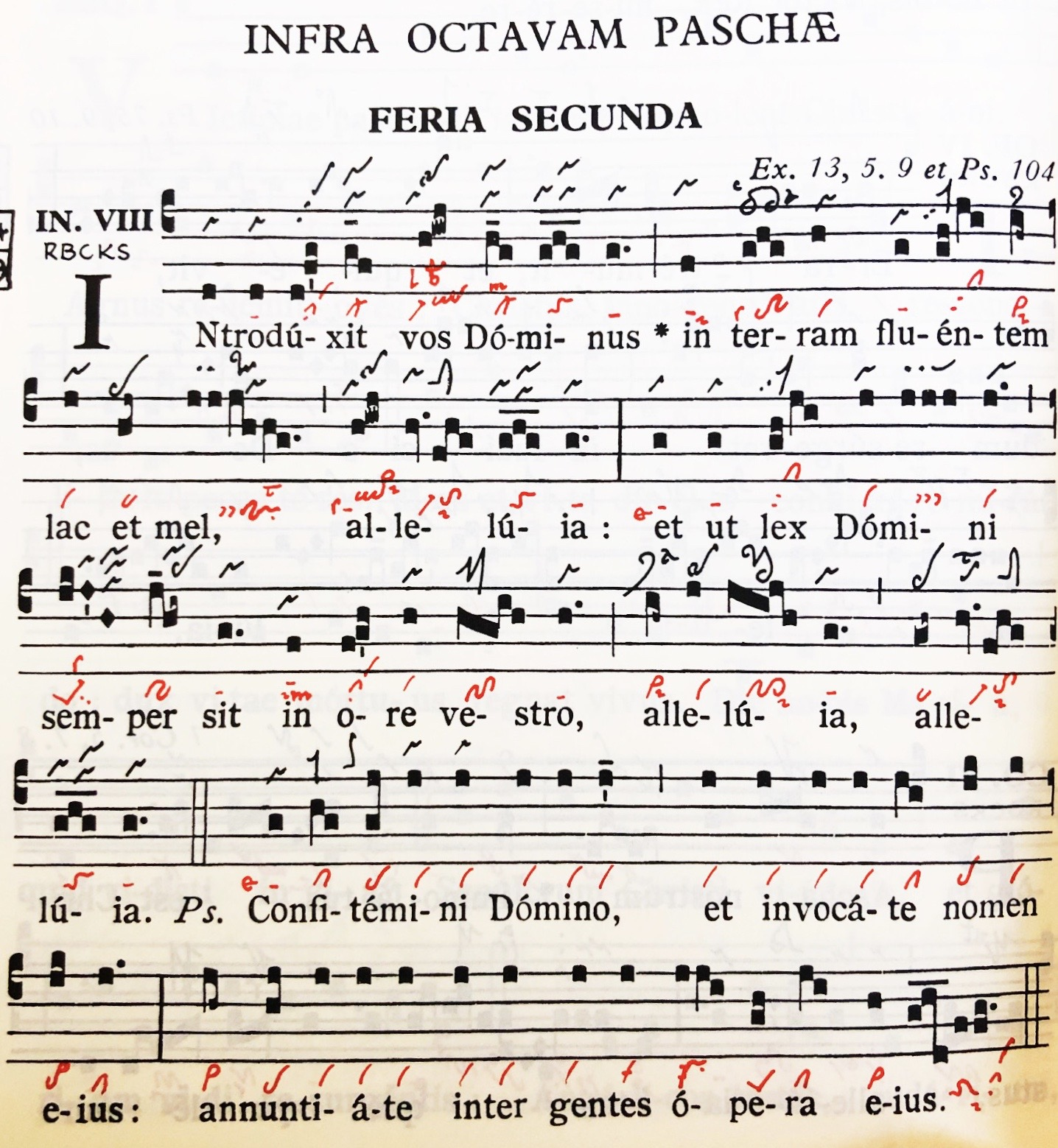 Introitus Introduxit vos